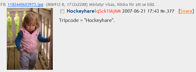 An image containing a tripcode (colored red) on a swedish image board. The small image is taken by me and is PD. The rest of the image is common property and can't be copyrighted.